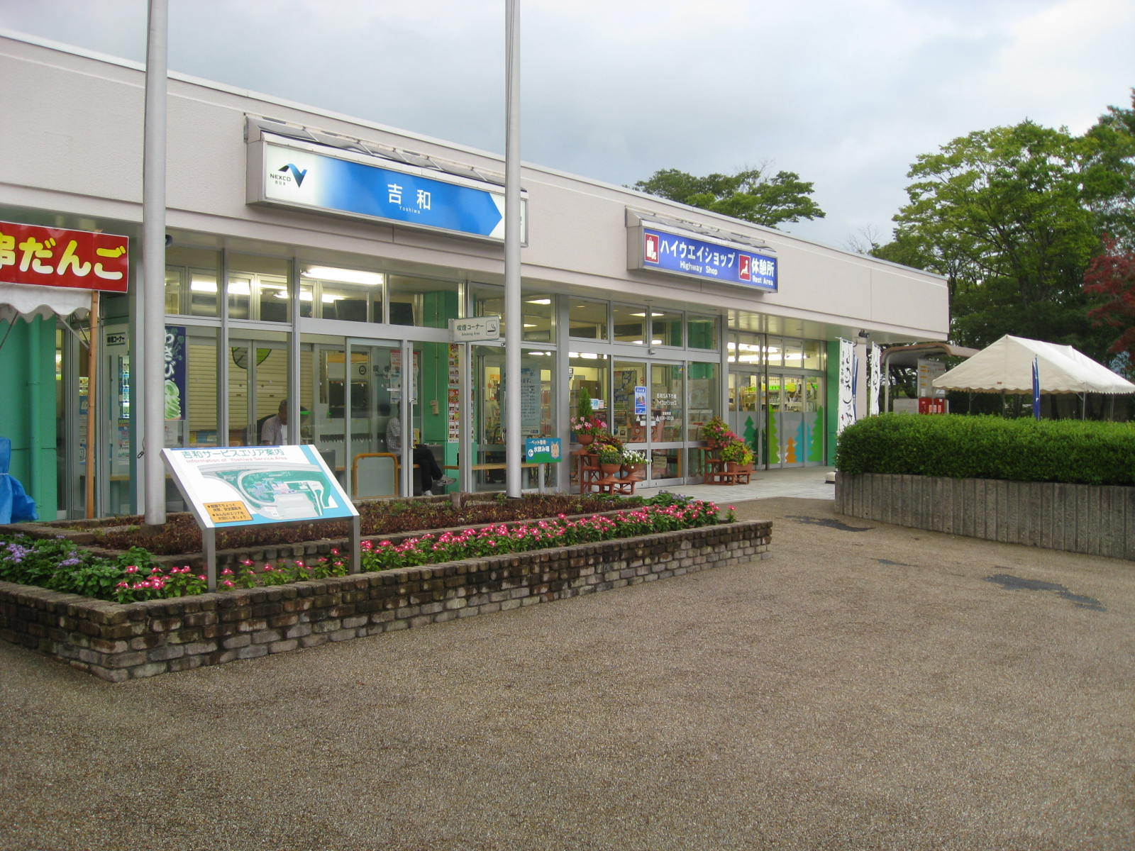 Yoshiwa Service Area on the Chugoku Expressway westbound line